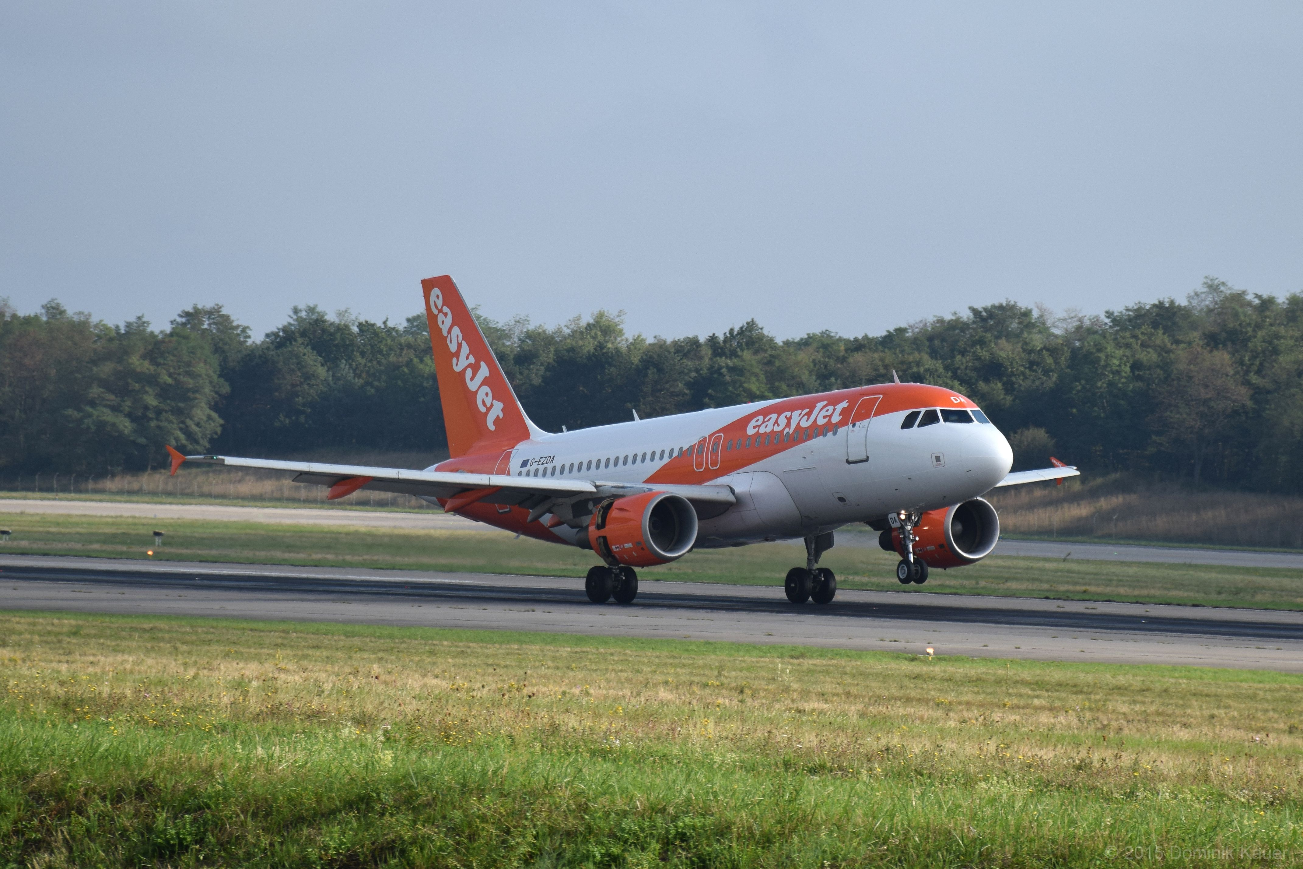 easyJet Airbus A319-111 landing in Basel at the euroairport